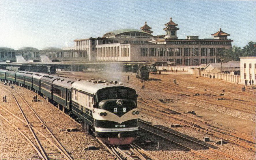 A China Railways "Weixing" NY1 diesel locomotive hauling a passenger train was departing from Beijing Railway Station, in 1959.